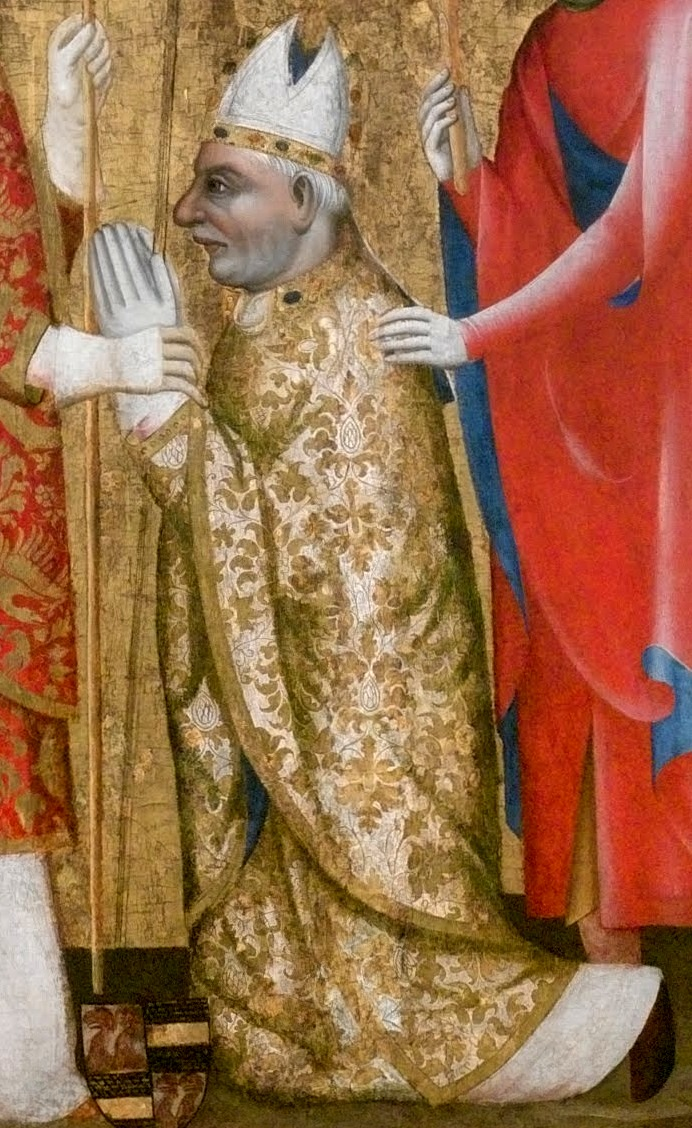 Archbishop Jan Ocko z Vlasimi from the Votive Painting of Archbishop Jan Očko of Vlašim